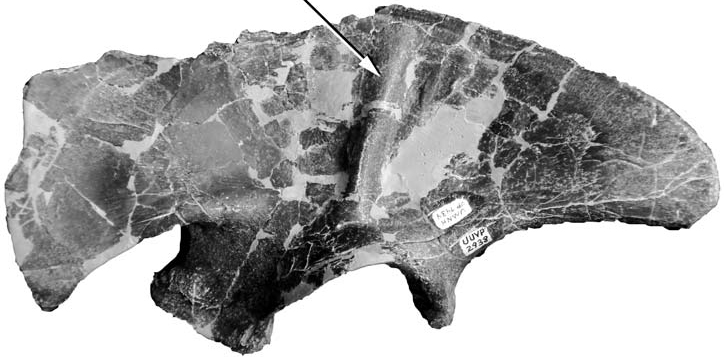 Left ilium of Stokesosaurus clevelandi, Madsen 1974 (UMNH VP 7473), Morrison Formation, Utah, USA, Late Jurassic (early Tithonian).